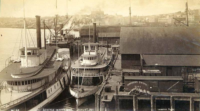 Union Pacific dock at Seattle, Washington, June 6, 1891. Steamers at the dock are not identified, but large sidewheeler on left is probably the T.J. Potter. The steamer next to the dock may be the Multnomah (based on appearance of wheelhouse, texas, and central king post).